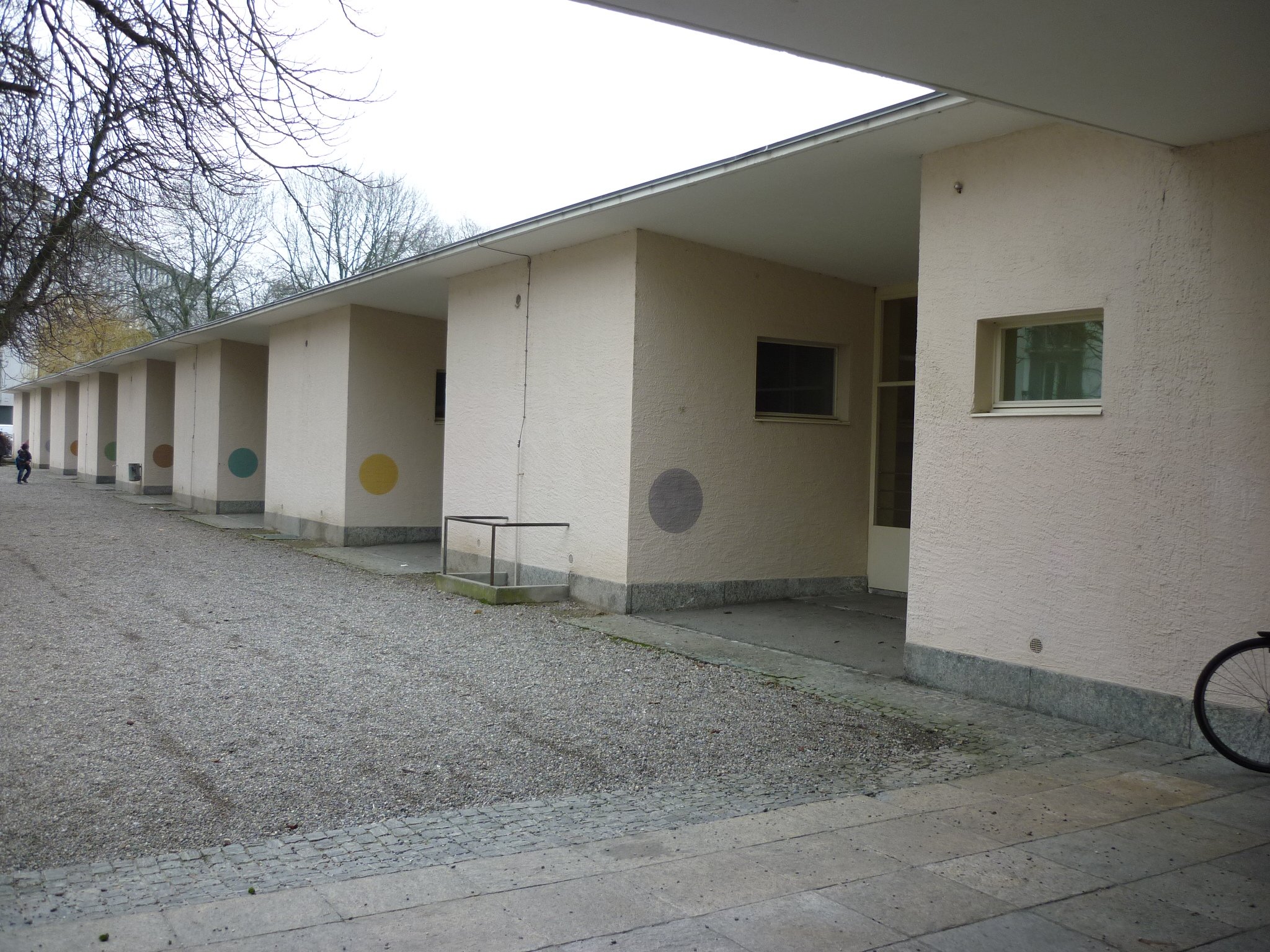 Kindergarten house, Zürich-Wiedikon, Switzerland, built in 1932, New Objectivity architecture